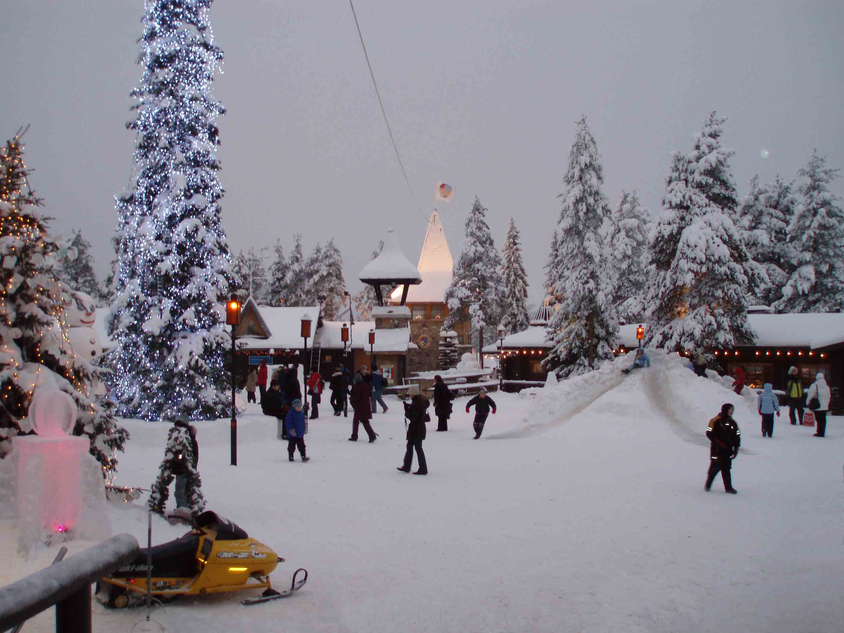 Santa Claus' Village in Rovaniemi, Finland